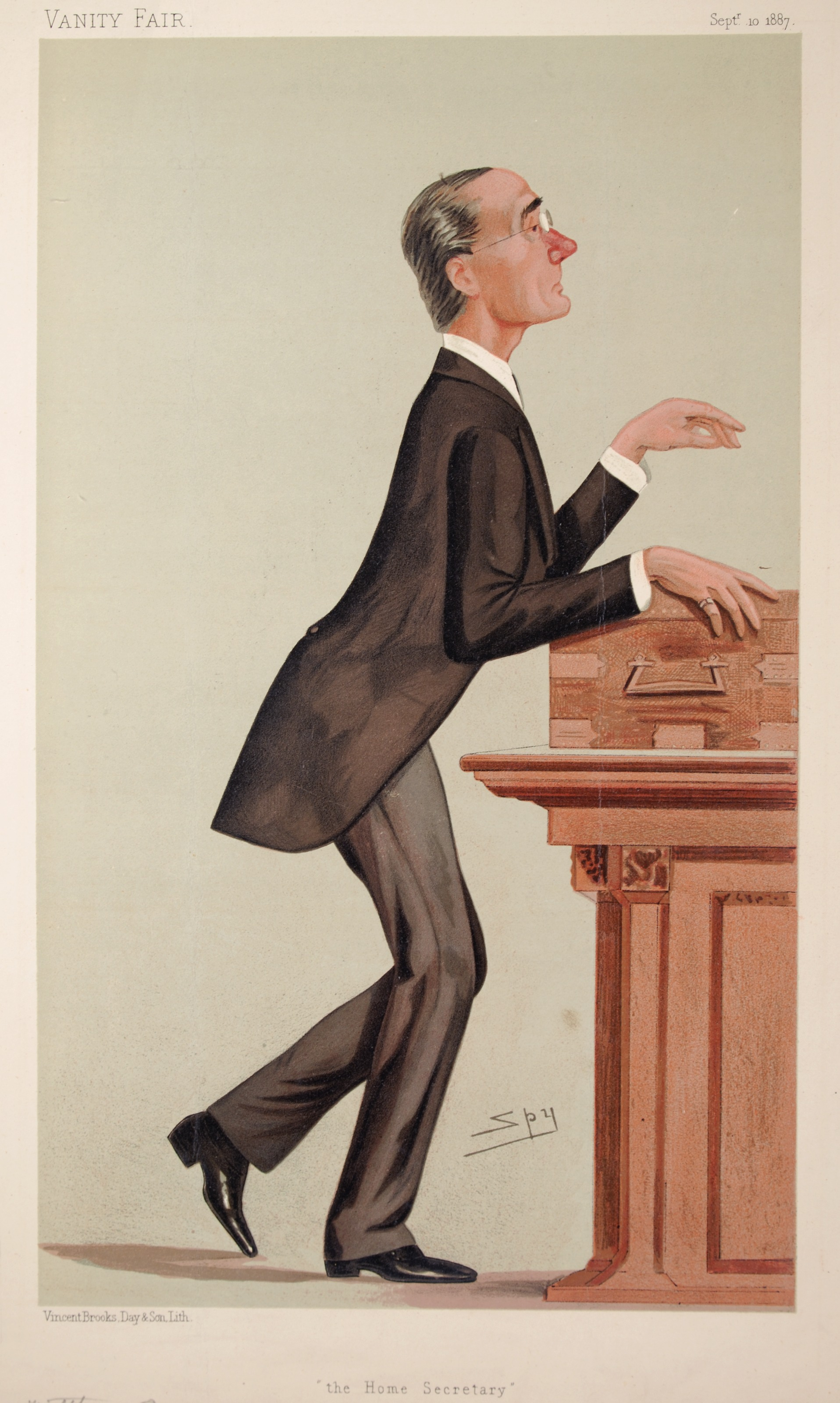 Statesmen No.527: Caricature of The Rt Hon Henry Matthews QC MP. Caption reads: "The Home Secretary"